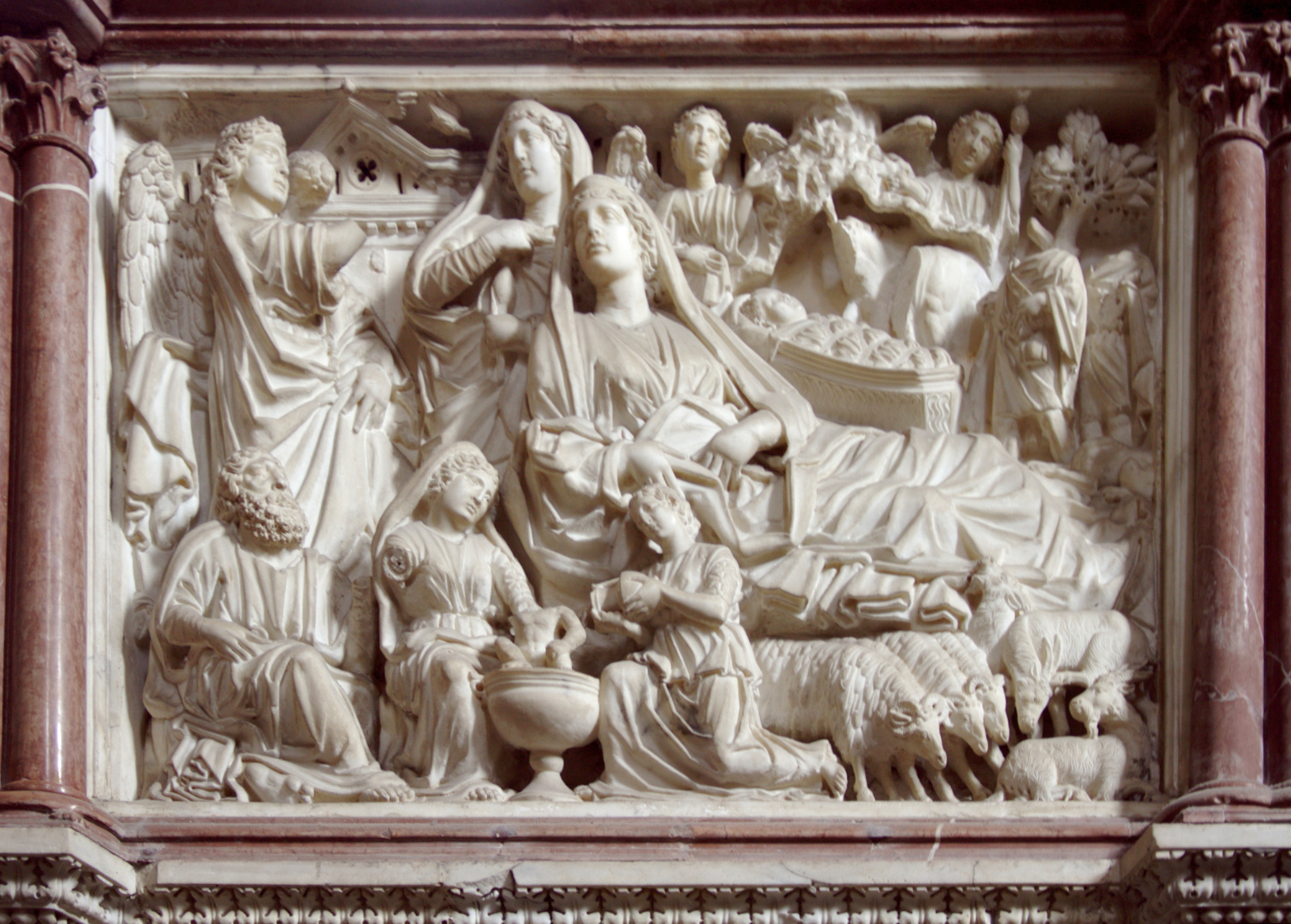 Batistery - Pisa